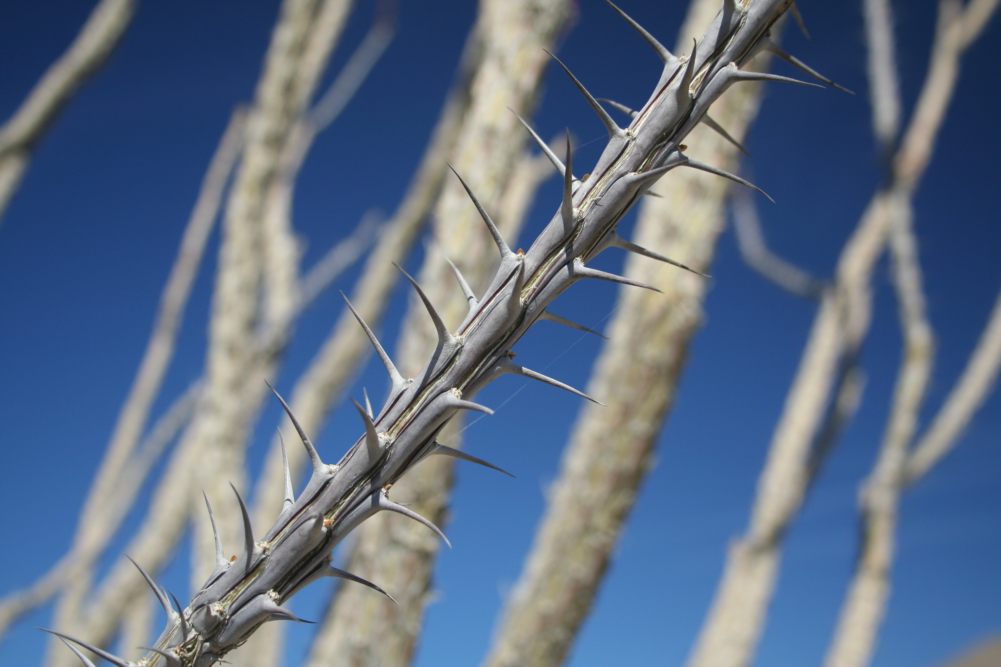 Photographed by and copyright of (c) David Corby (User:Miskatonic, uploader) 2006 Closer up of Ocotillo thorns taken in Anza Borrego